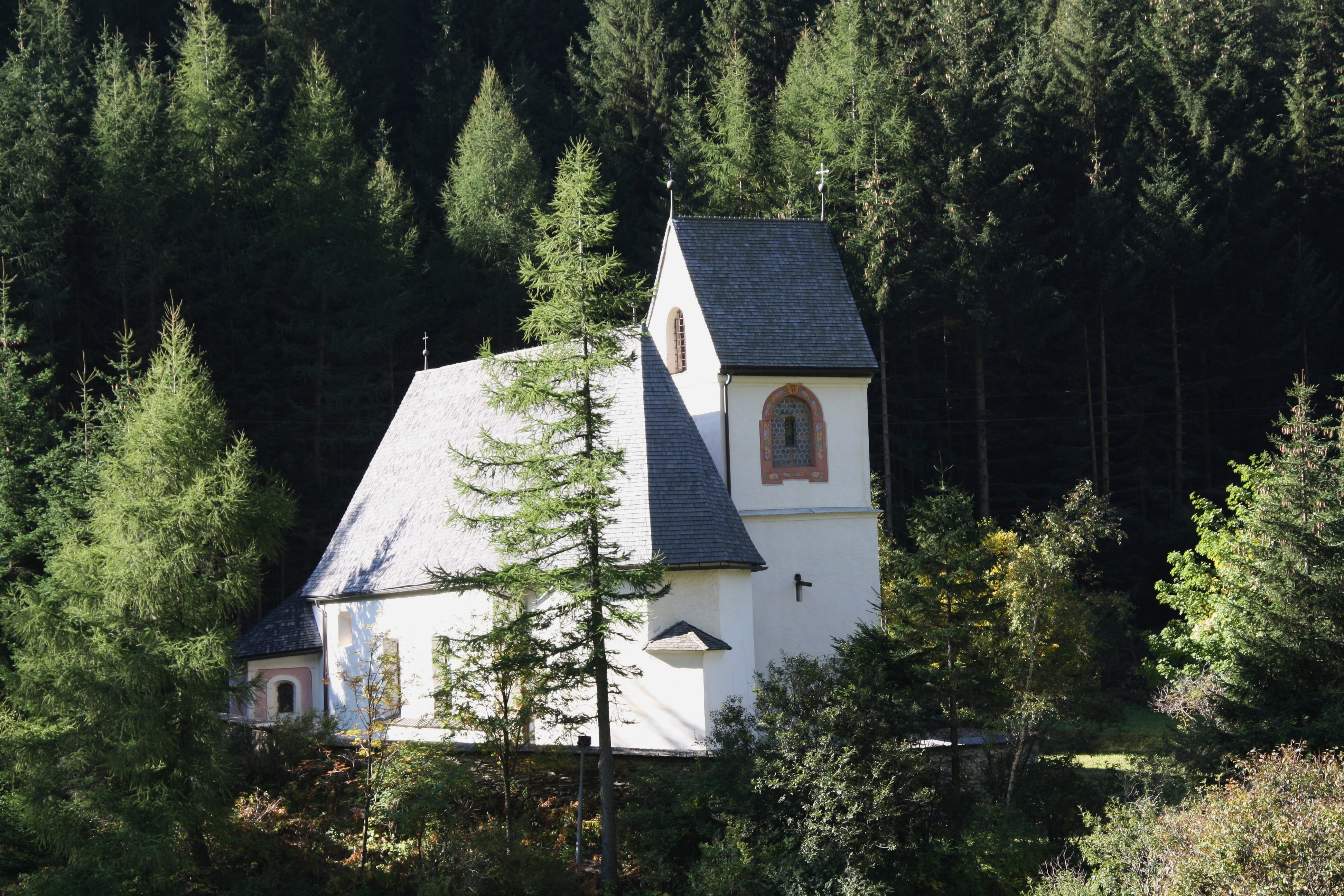 Austria, Tyrol (state), Gries am Brenner. The Luegkirche with the Romanesque tower bell.